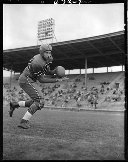 B.C. Lions football club, portraits, individual players, Bob Holburn VPL Accession Number: 84780O Date: July 10, 1954 Photographer / Studio: Jones, Art Content: Part of a series 84780+ (63 photos) Topic: Sports Sports teams Football Football players Stadiums Costume Sports uniforms Location: British Columbia - Vancouver Copyright Restrictions: Public Domain